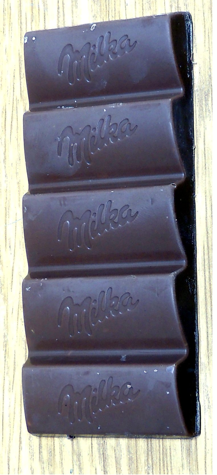 Bar of almond chocolate Milka